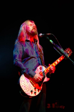 Alice In Chains